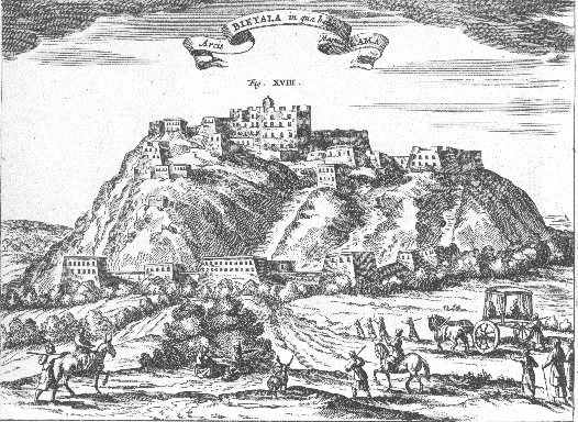 The Potala palace in Lhasa, Tibet, as seen and depicted by the Austrian Jesuit Johann Grueber, who had been there in 1651. Cut from the book China Illustrata of Athanasius Kircher (1667).